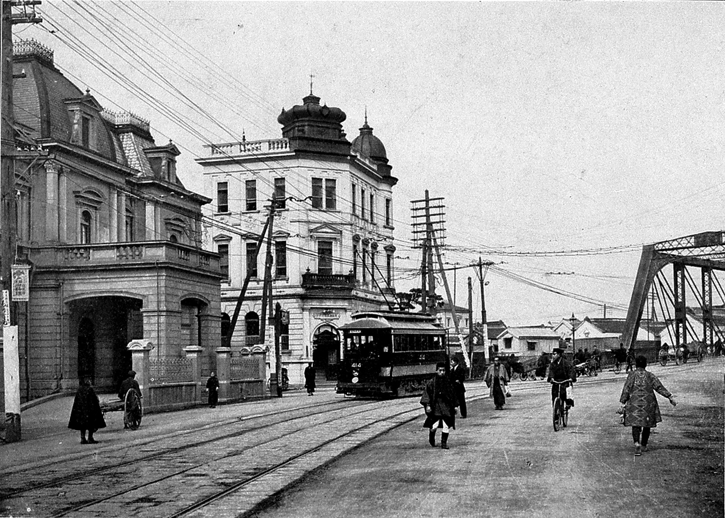 A streetcar passes by the Tokyo Stock Exchange building